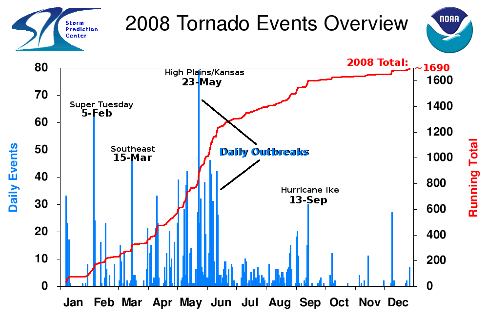 A chart showing the daily tornado totals in the United States during 2008